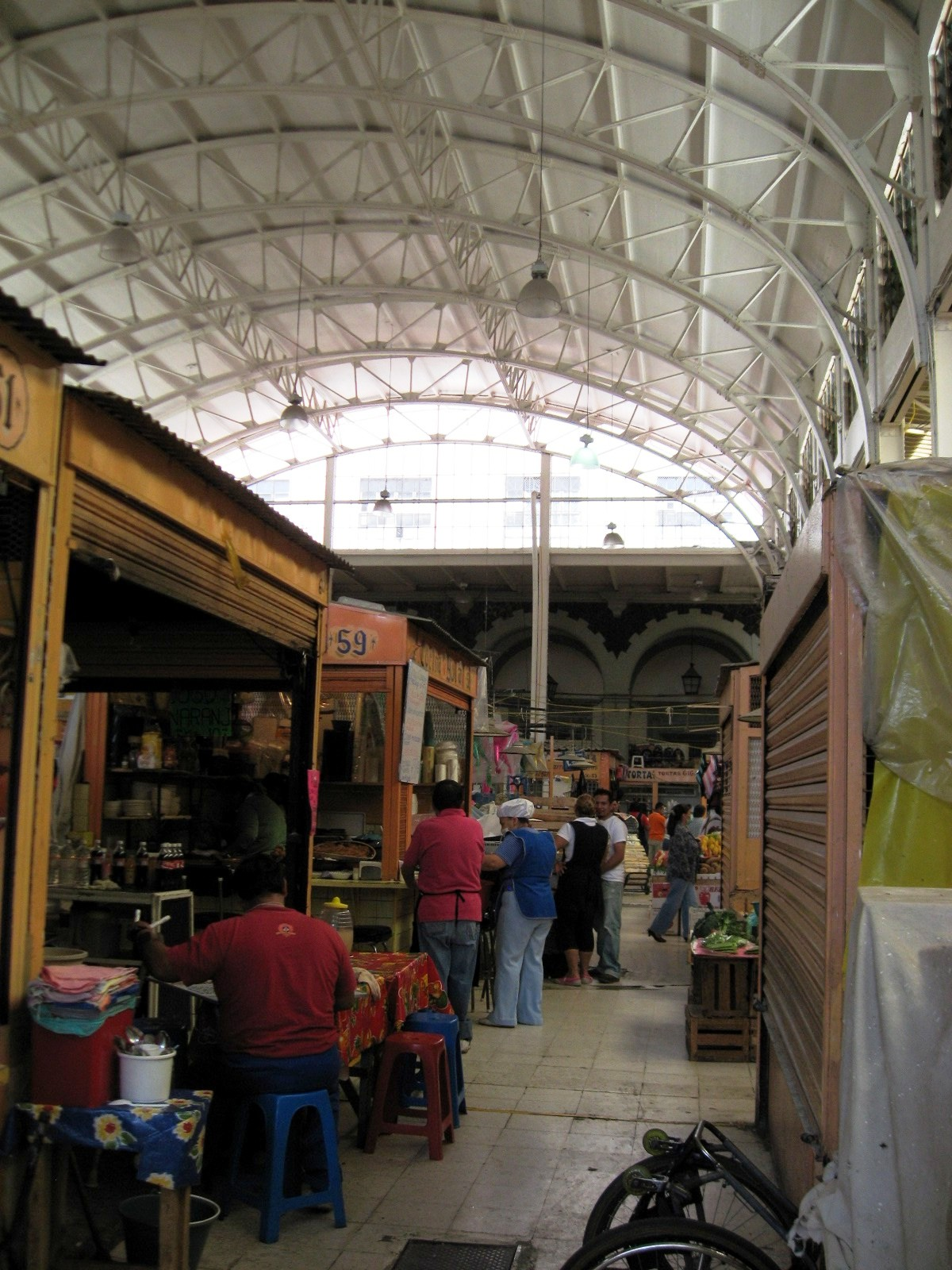 Food vendors at the Abelard Rodriguez Market, location in the historic center of Mexico City